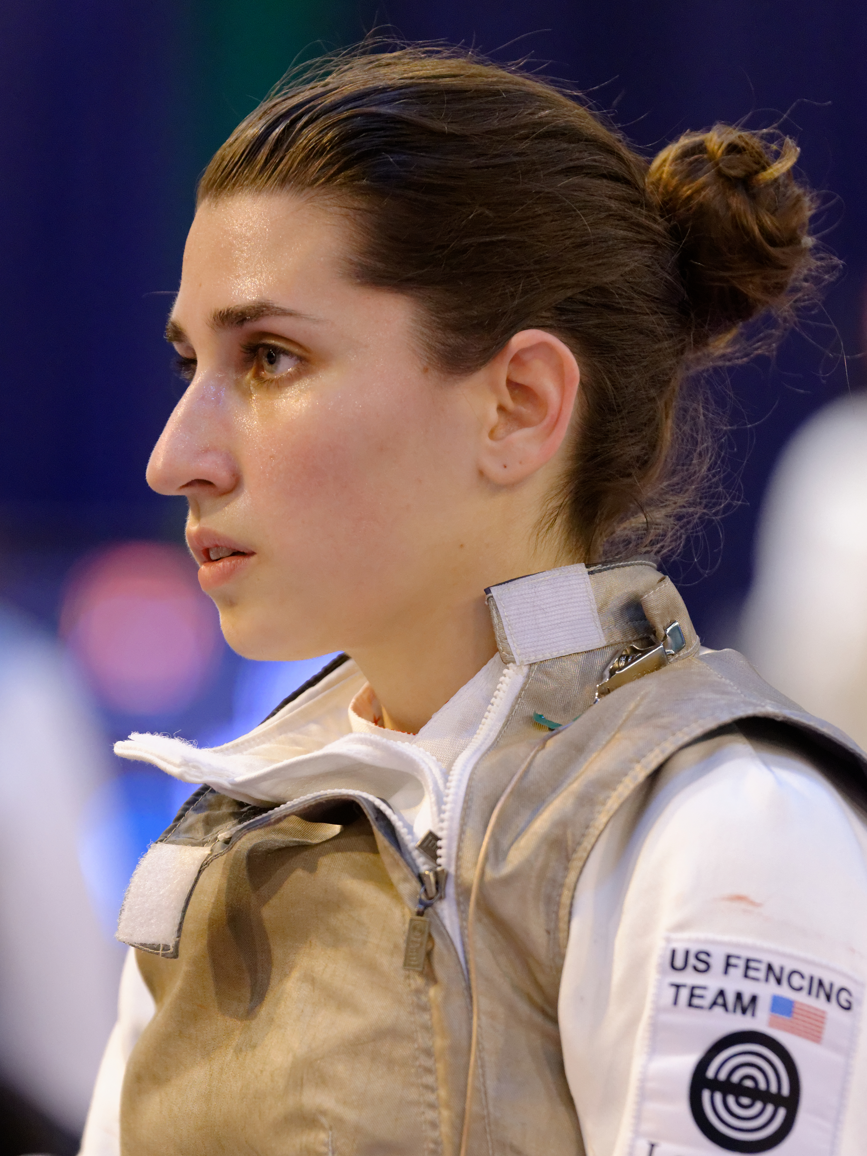 Nicole Ross of the United States at the Saint-Maur Women's Foil World Cup.